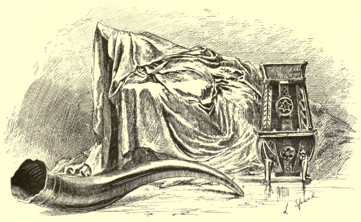 A scanned image from page 195, of the book Footsteps of Dr. Johnson. The illustration is an engraving. It pictures the Dunvegan cup, the Fairy flag, and Rory Mor's horn. All three are relics of the Macleods of Dunvegan.